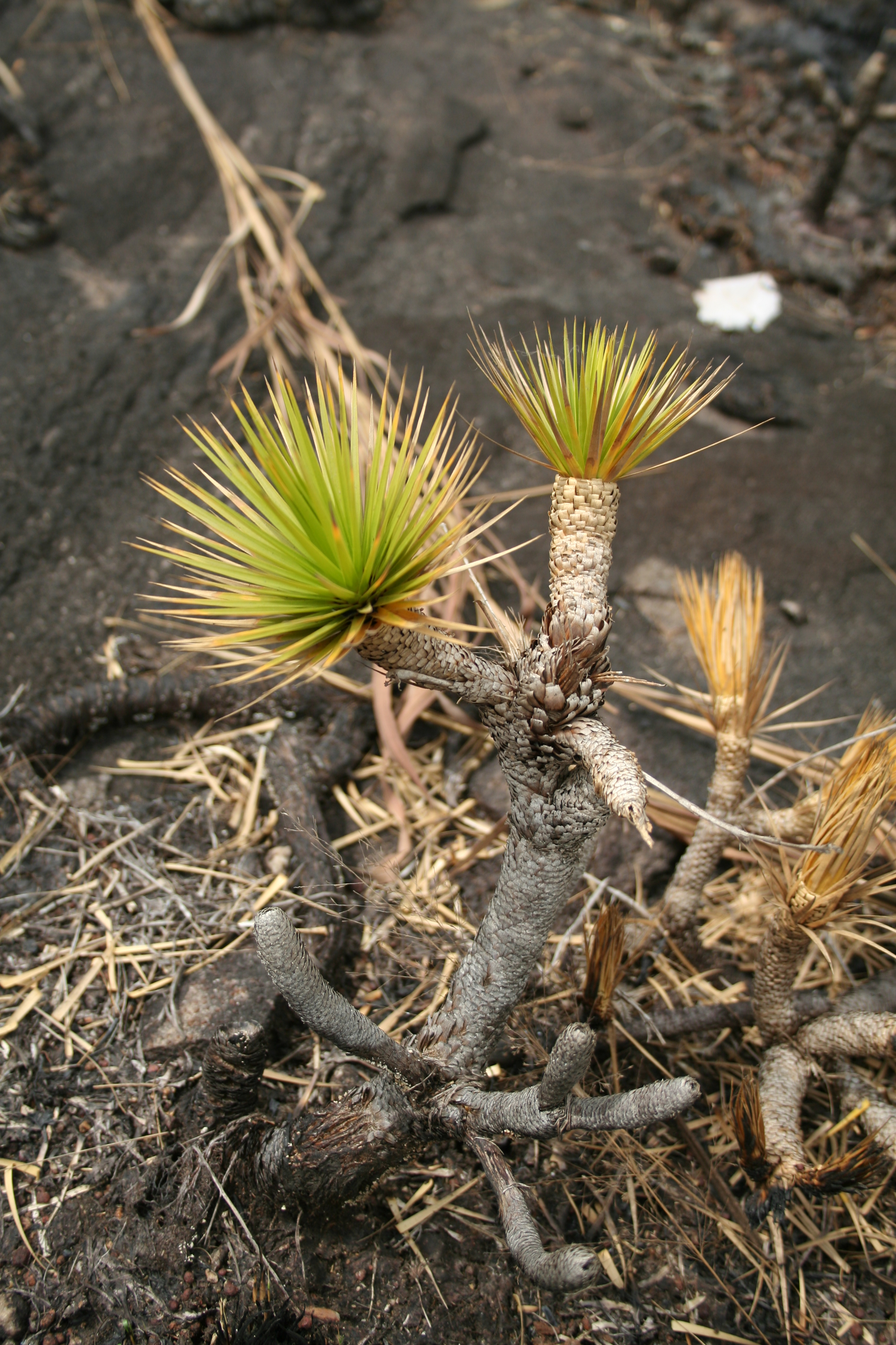 Microdracoides squamosus on an inselberg near Yaoundé, Cameroon